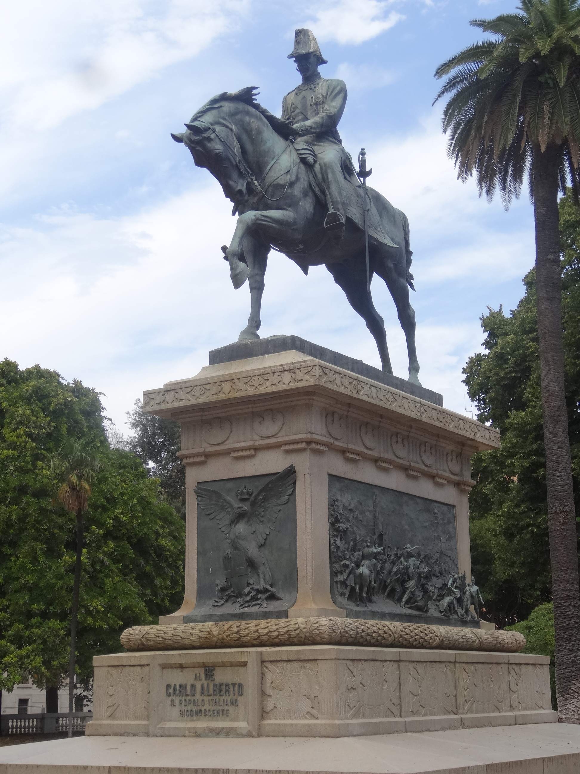 Equestrian statue of Carlo Alberto (Rome)